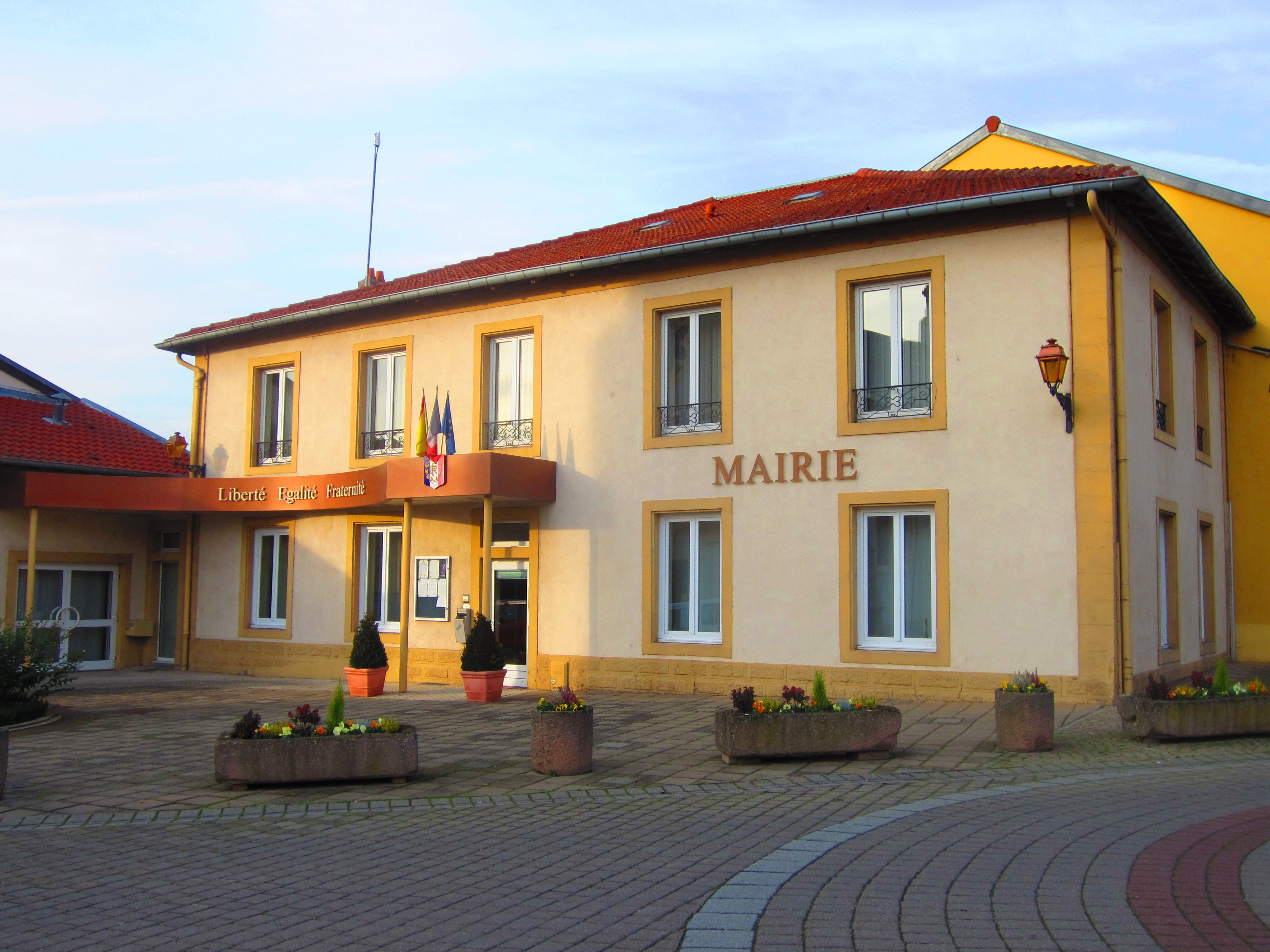 Description mairie Illange Date23 November 2011Sourcemon appareil photoAuthorAimelaimePermission (Reusing this file) mairie Illange